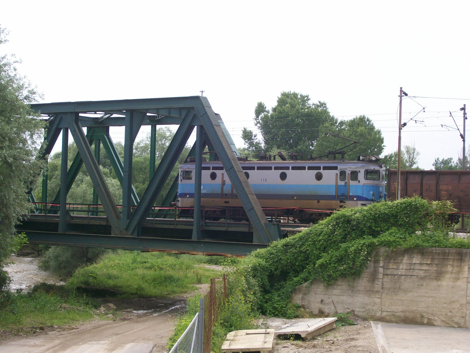 Railway bridge over Krapina river near Zaprešić